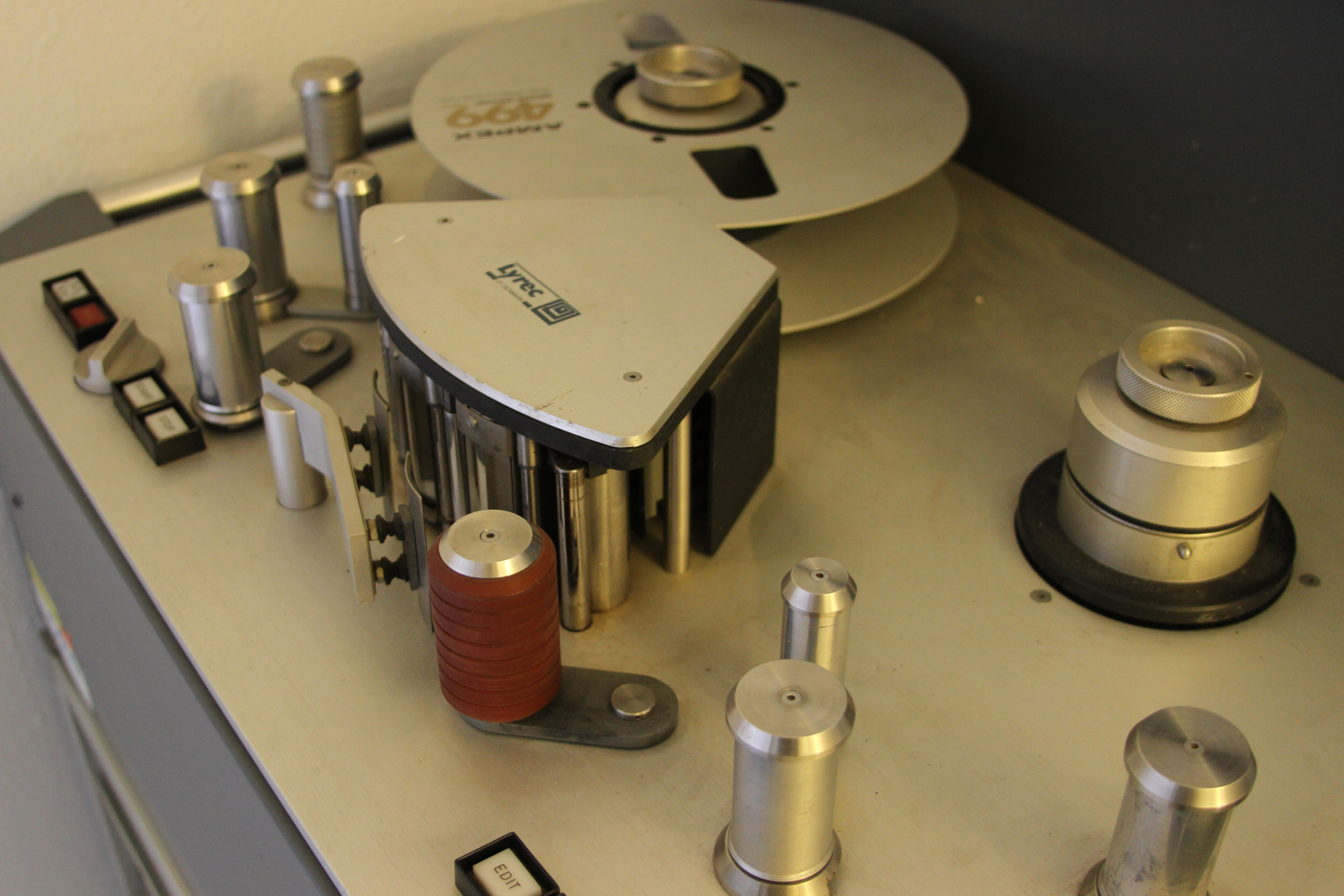 2 inch mashine at california recording company Van nuys ca usa